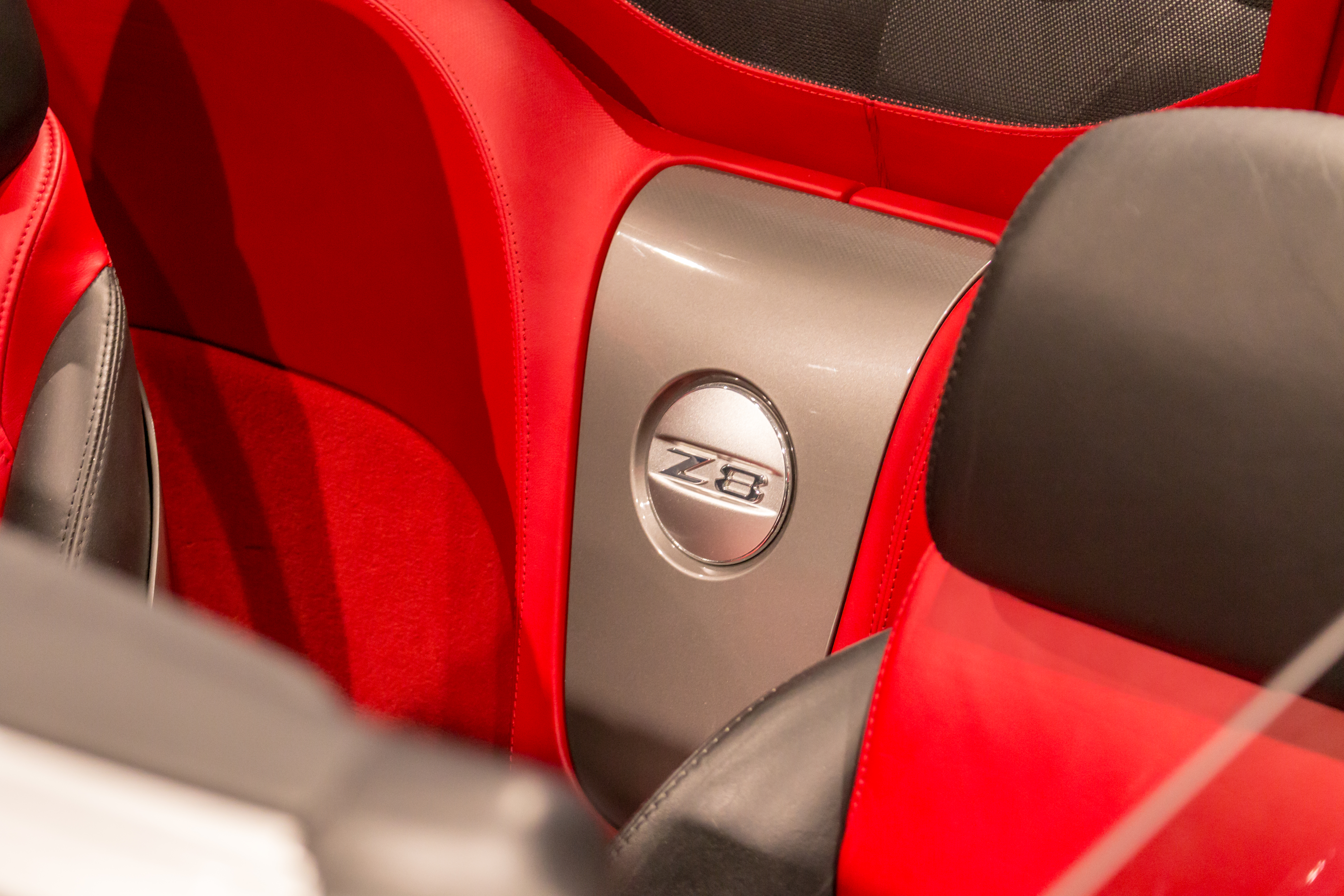 BMW, Techno-Classica 2018, Essen